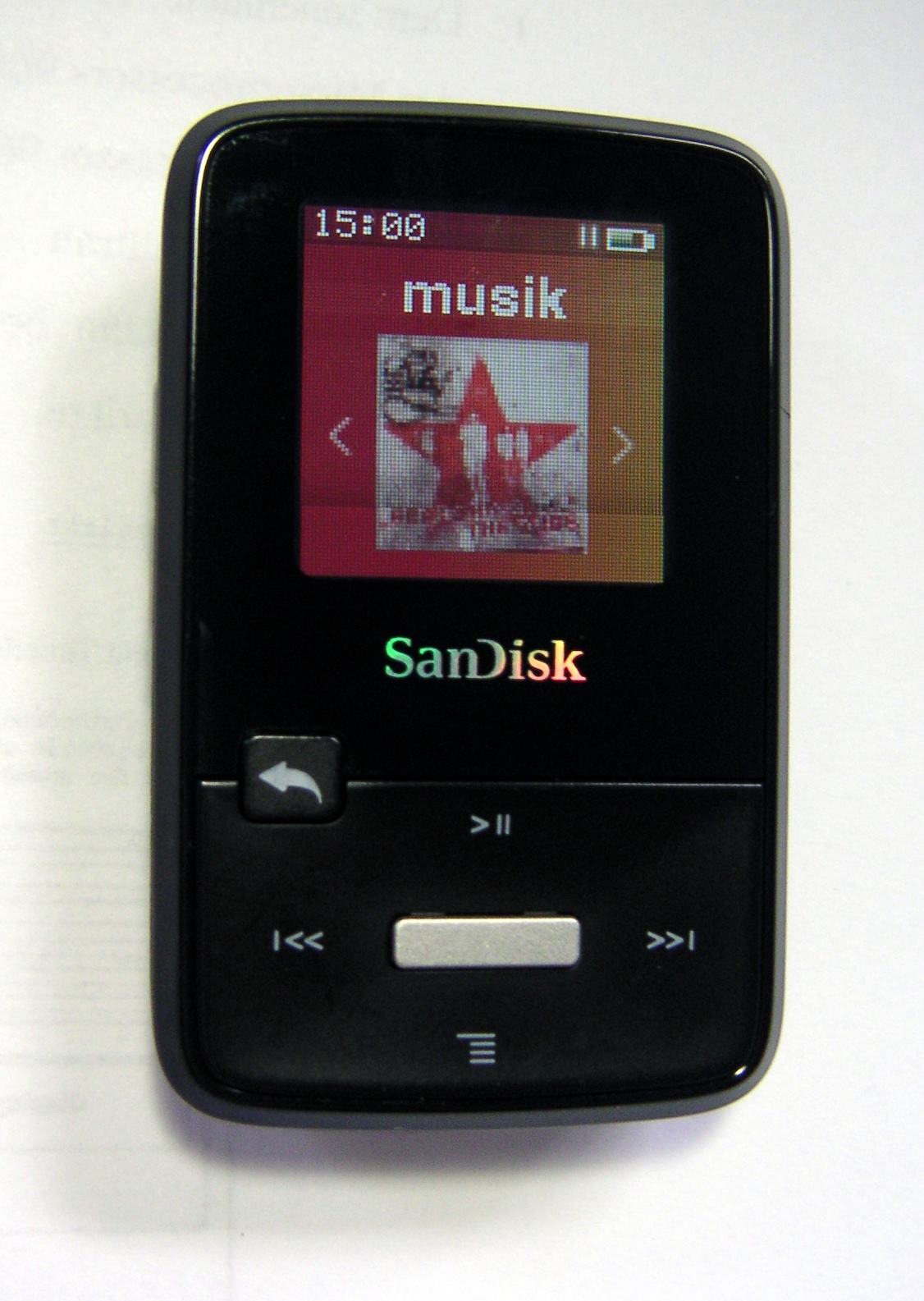 The MP3 player Sansa Clip Zip from Sandisk. Colour: black